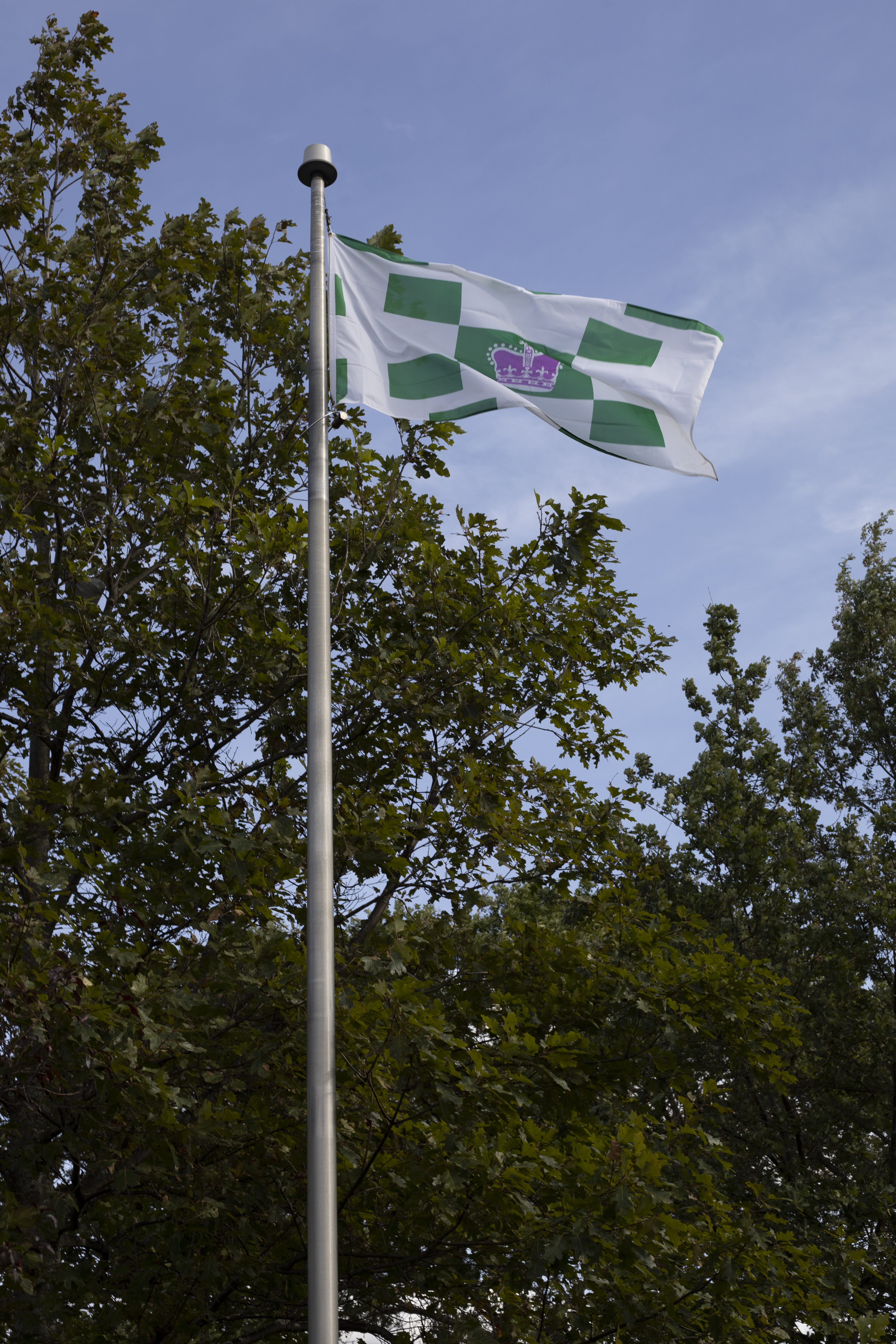 Charlottetown flag blowing in the wind on a flagpole at Joseph A. Ghiz Memorial Park, outside Holland College in Charlottetown, PEI.